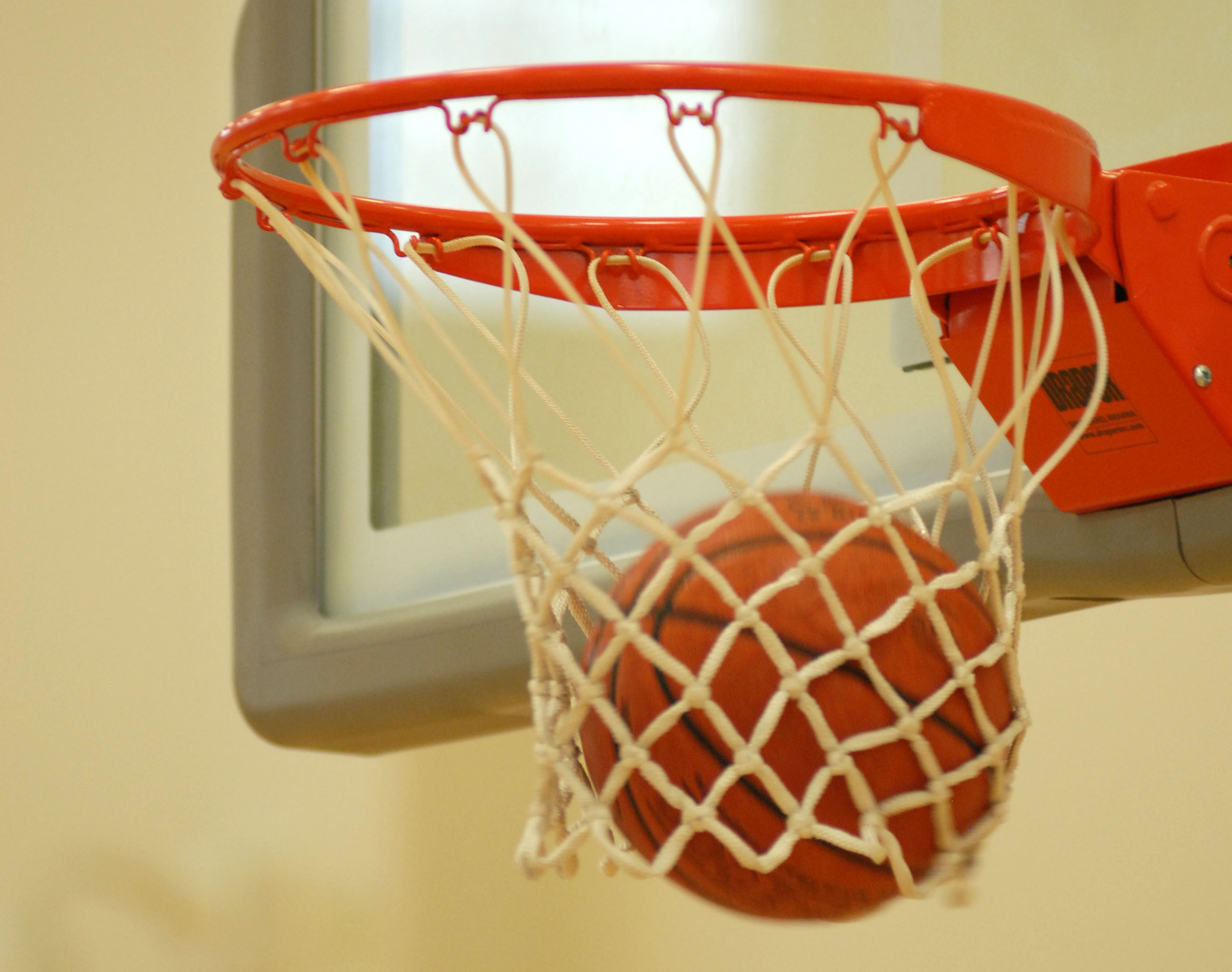 A basketball falls through the hoop